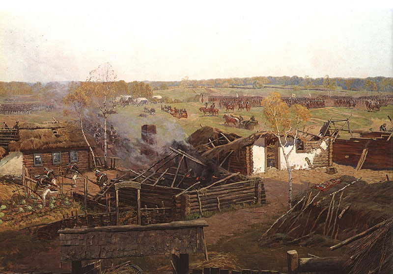 General Bagration, being evacuated, having been hit with a cannon ball, is visible in the background of the Battle of Borodino panorama.